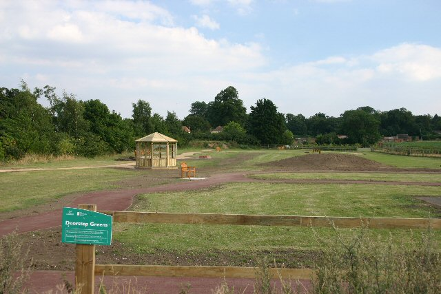 'Doorstep Greens' at Cavenham. 200 communities around the UK have been funded to develop doorstep greens, creating or enhancing green spaces near to people's homes. These are designed to help people who experience disadvantage, and places where regeneration of the local environment is crucial.